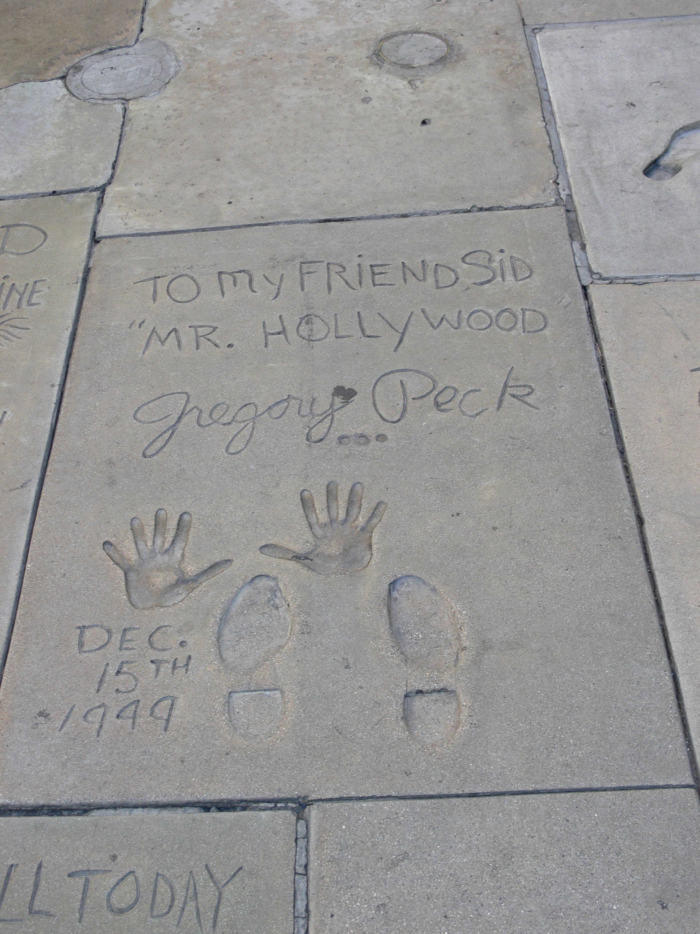 Courtyard of Grauman's Chinese Theatre, Hollywood Boulevard, Los Angeles